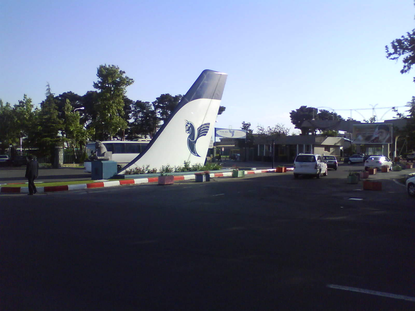 Iran Air head office at Mehrabad Airport in Tehran